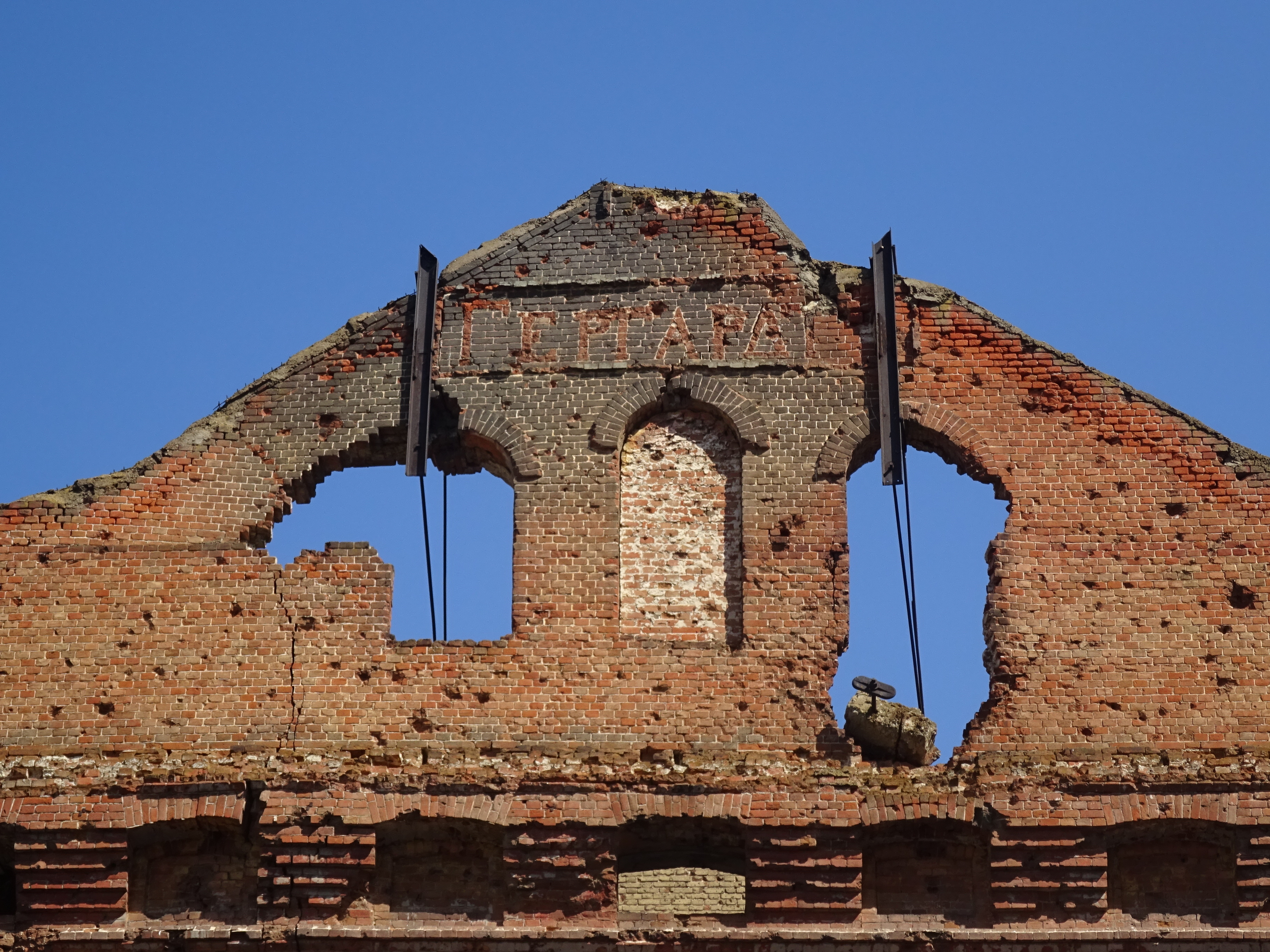 Gergardt Mill (inscription)